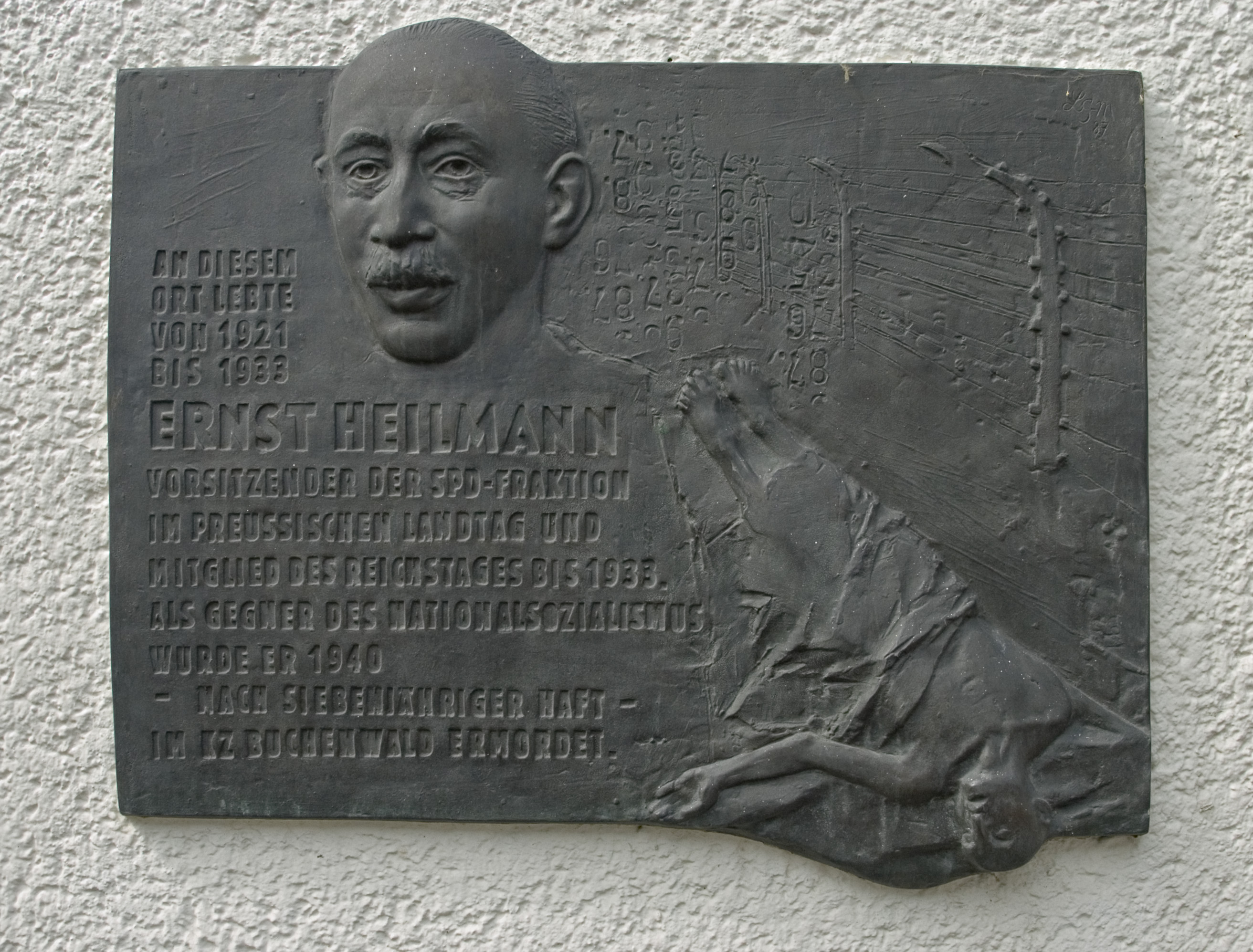 Memorial tablet for german politician Ernst Heilmann at Brachvogelstraße 5 in Berlin-Kreuzberg. Sculptor: Ludmilla Seefried-Matejkowa, 1987